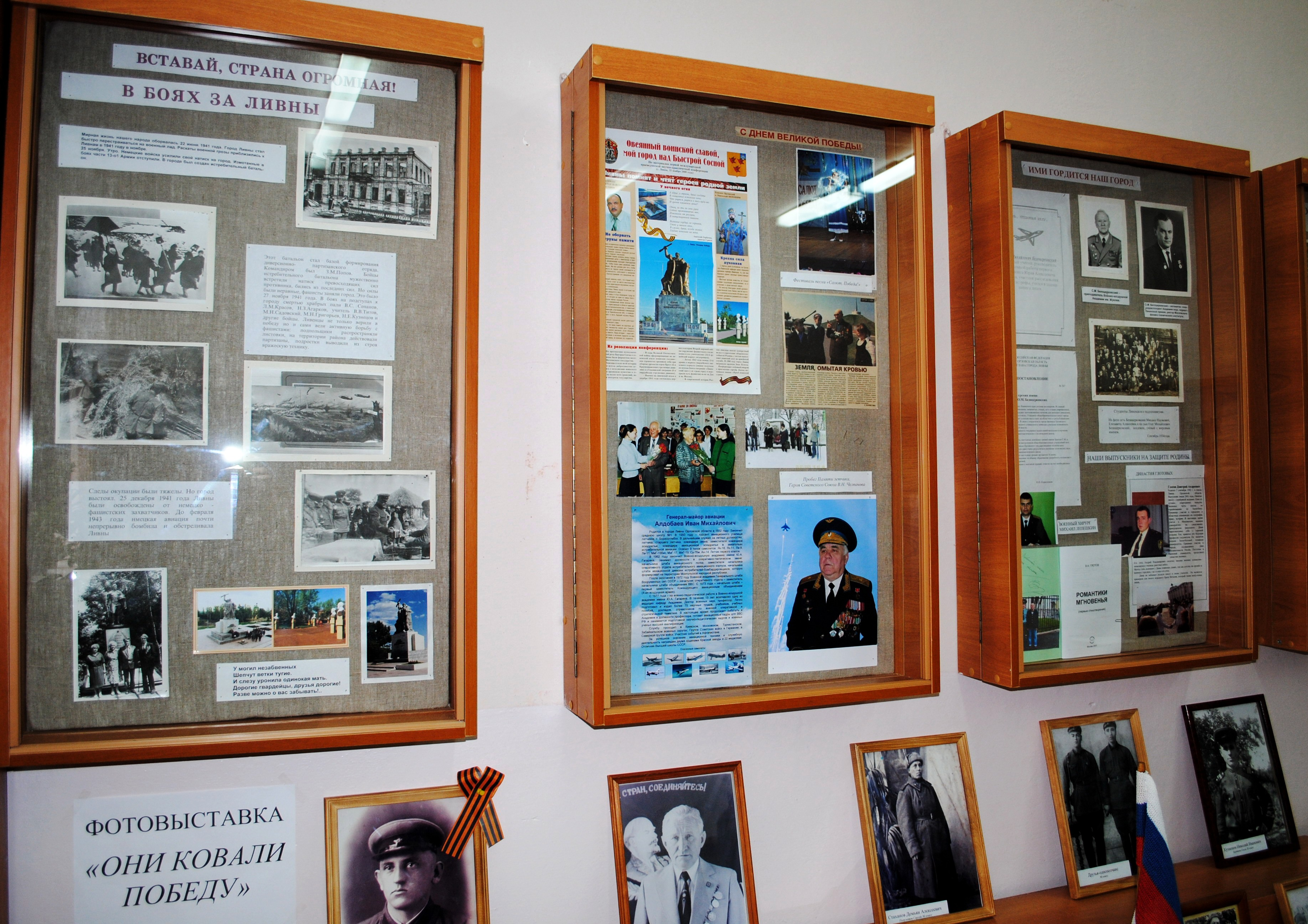 History Museum of Livny